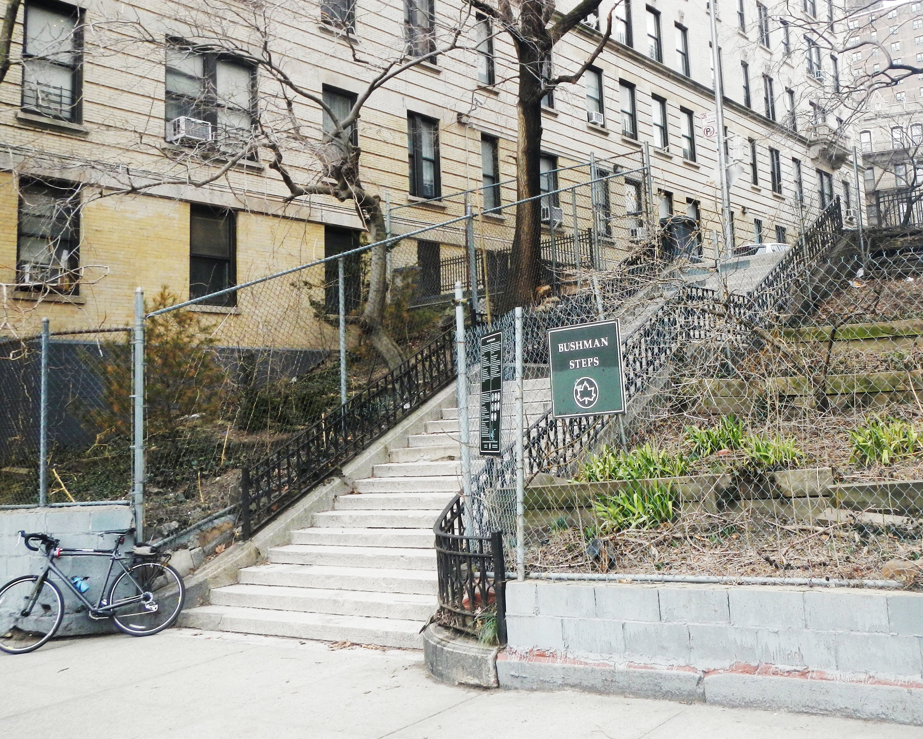 Looking west from Edgecomb at Bushman Steps on a cloudy day.